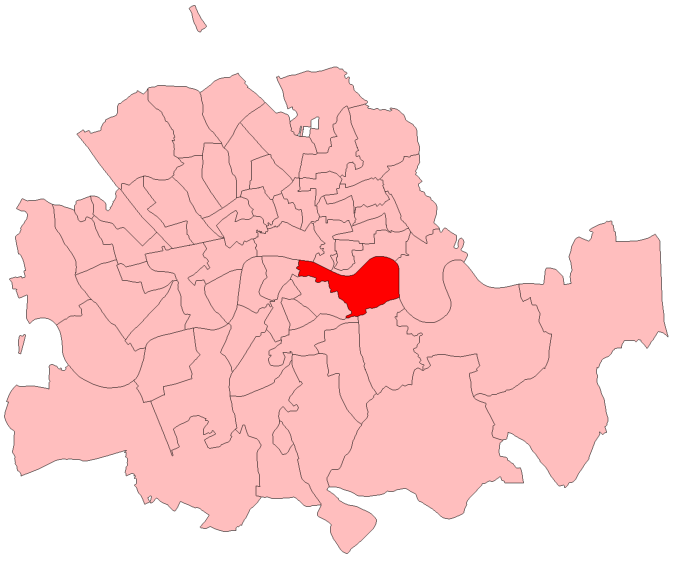 A map of Rotherhithe constituency within the Metropolitan Board of Works area, as it existed from 1885 to 1918.